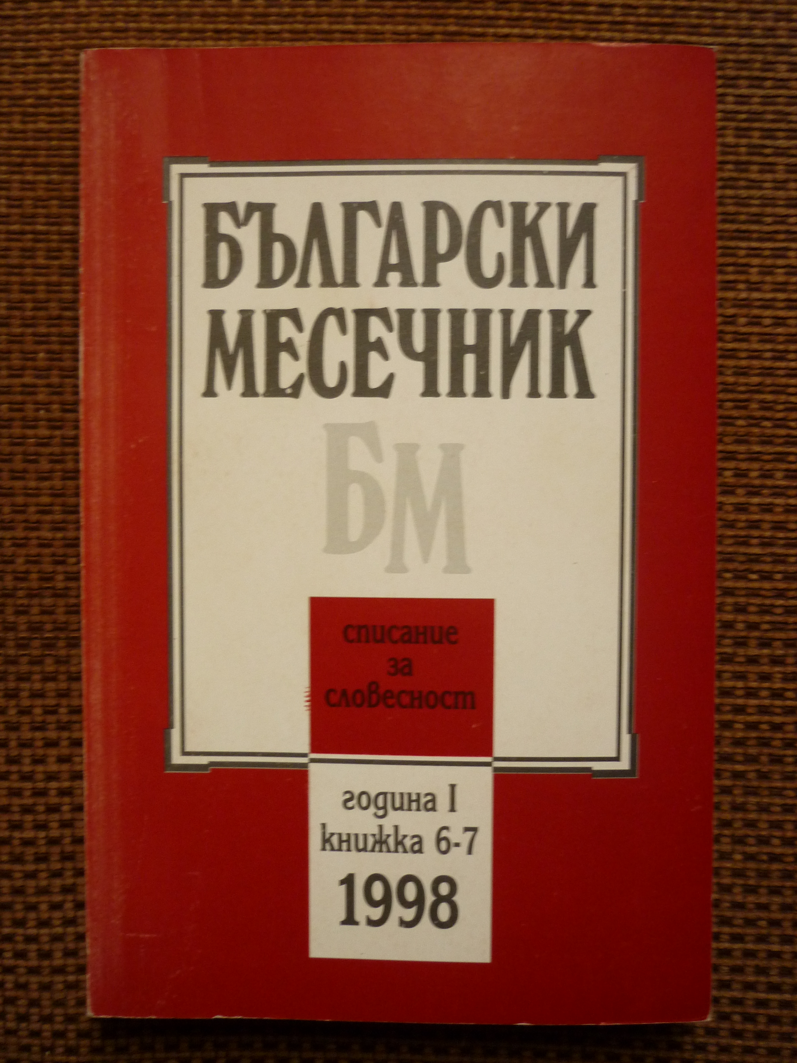 Magazine cover „Bulgarski mesechnik“ (Bulgarian Monthly), 1998, vol. 6-7.